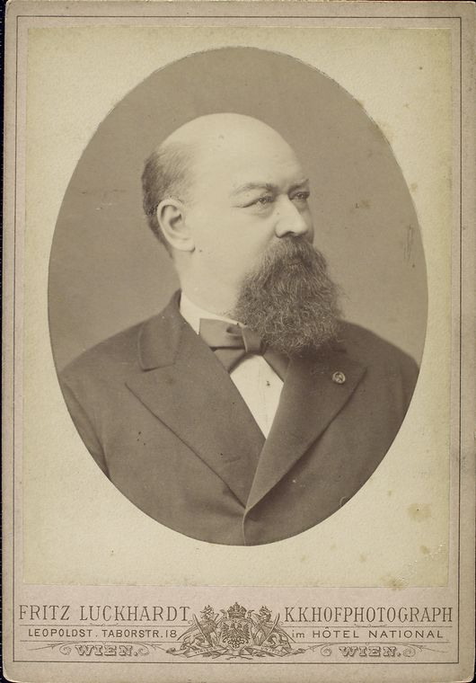 Austrian composer Franz von Suppé.